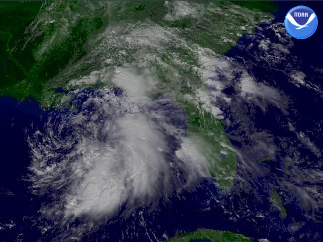 The National Weather Service's Tropical Prediction Center shows Tropical Storm Hanna 105 miles south-southwest of the mouth of the Mississippi River. Winds are sustained at 45 MPH with stronger gusts.